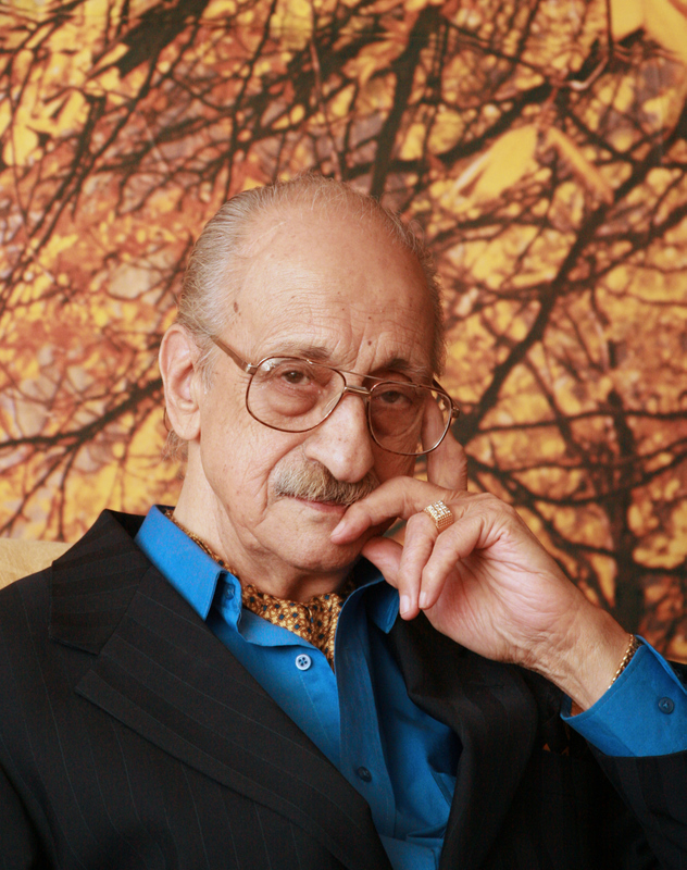 Singer